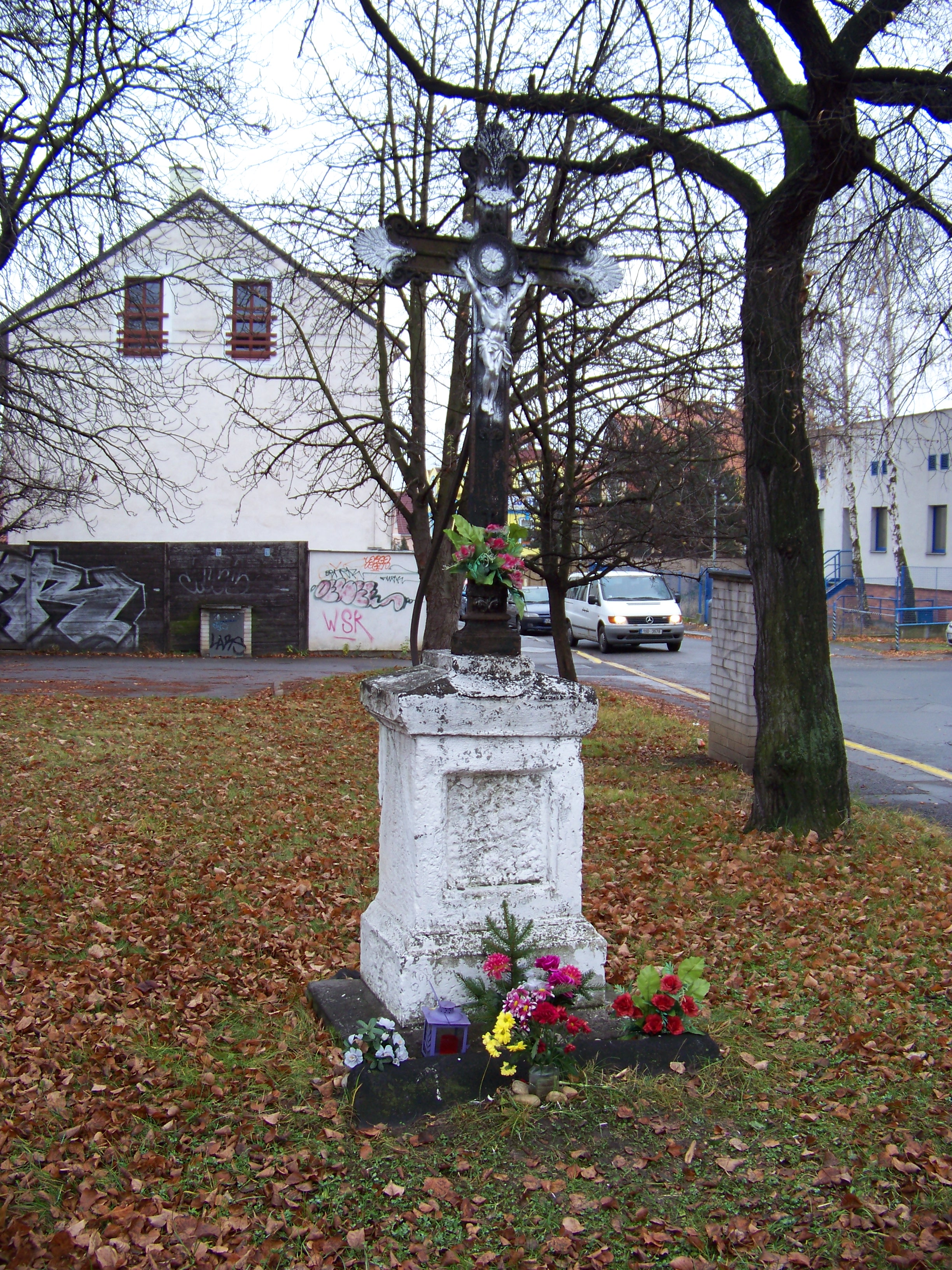 Prague-Krč, the Czech Republic. Hornokrčská street, a cross.